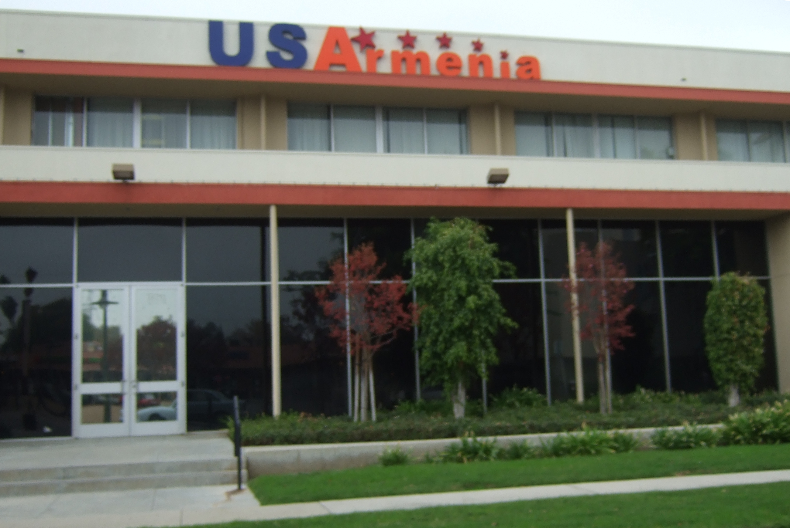 The building of USArmenia TV in Tarzana, California